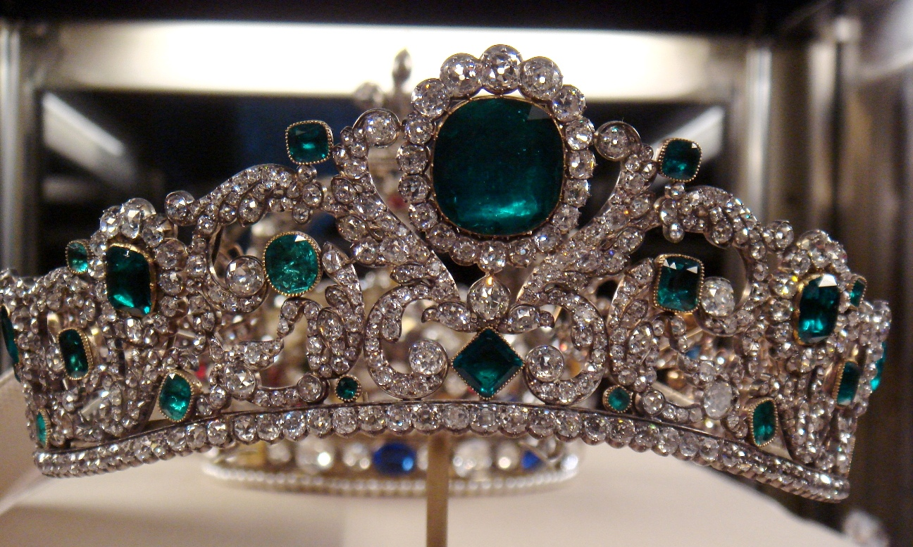 Diadem of the Duchess of Angoulême Marie Thérèse of France. Gold, gilt silver, 40 emeralds and 1031 diamonds. Made in Paris in 1819-1820 to match an emerald necklace made by Paul-Nicolas Menière in 1814.